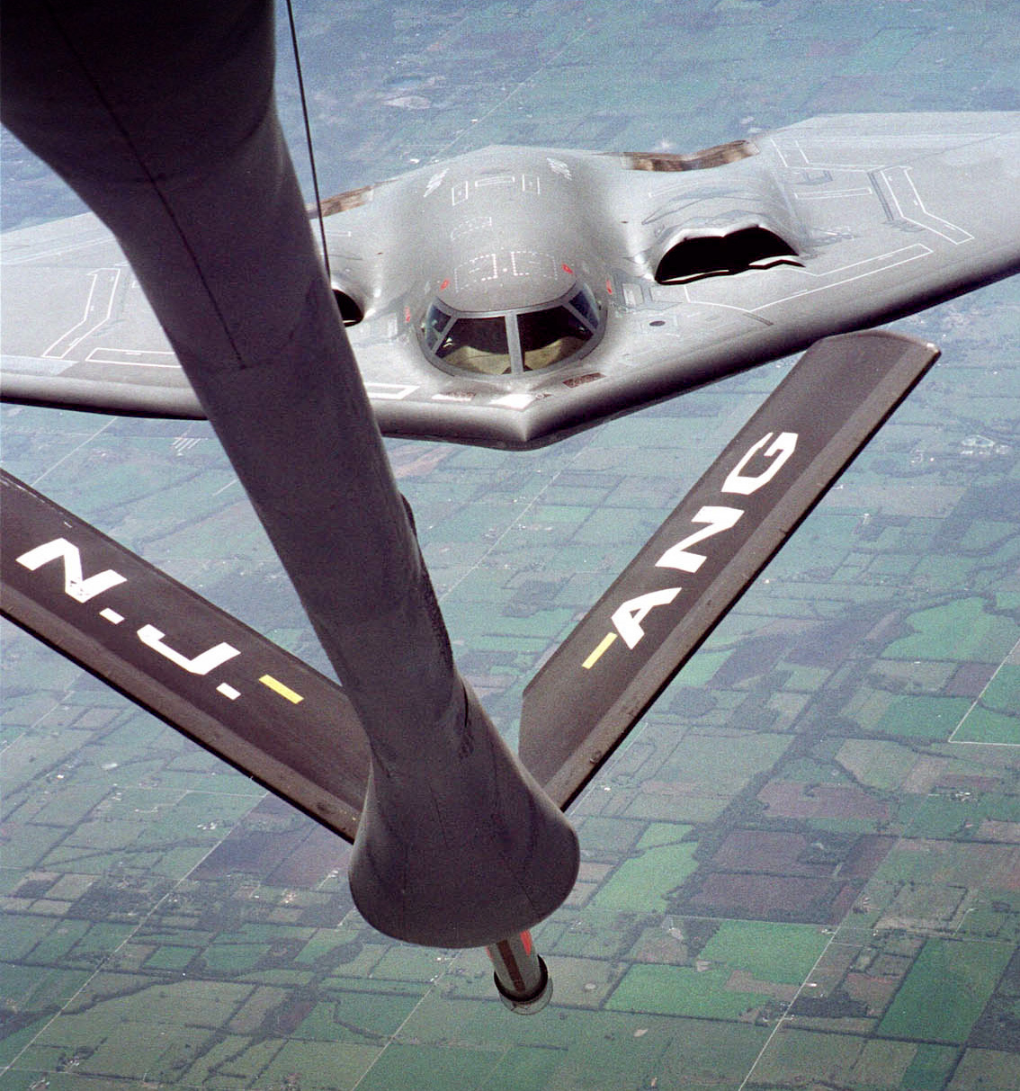 FILE PHOTO -- A B-2 Spirit from Whiteman Air Force Base, Mo. pulls up for a fill-up with a KC-135 Stratotanker of New Jersey's 108th Air Refueling Wing, Air National Guard over Kansas farmland. The KC-135 Stratotanker's principal mission is air refueling. This asset greatly enhances the U. S. Air Force's capability to accomplish its mission of Global Engagement. (U.S. Air Force photo by Staff Sgt. Mark Olsen)